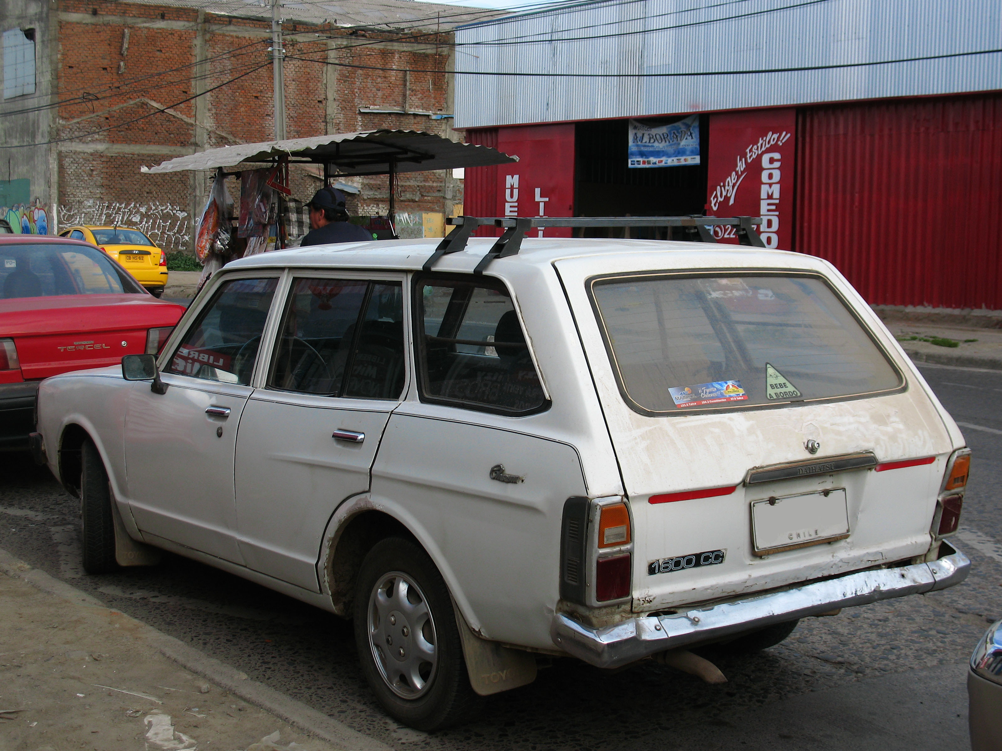 Daihatsu Charmant 1600 Wagon 1981